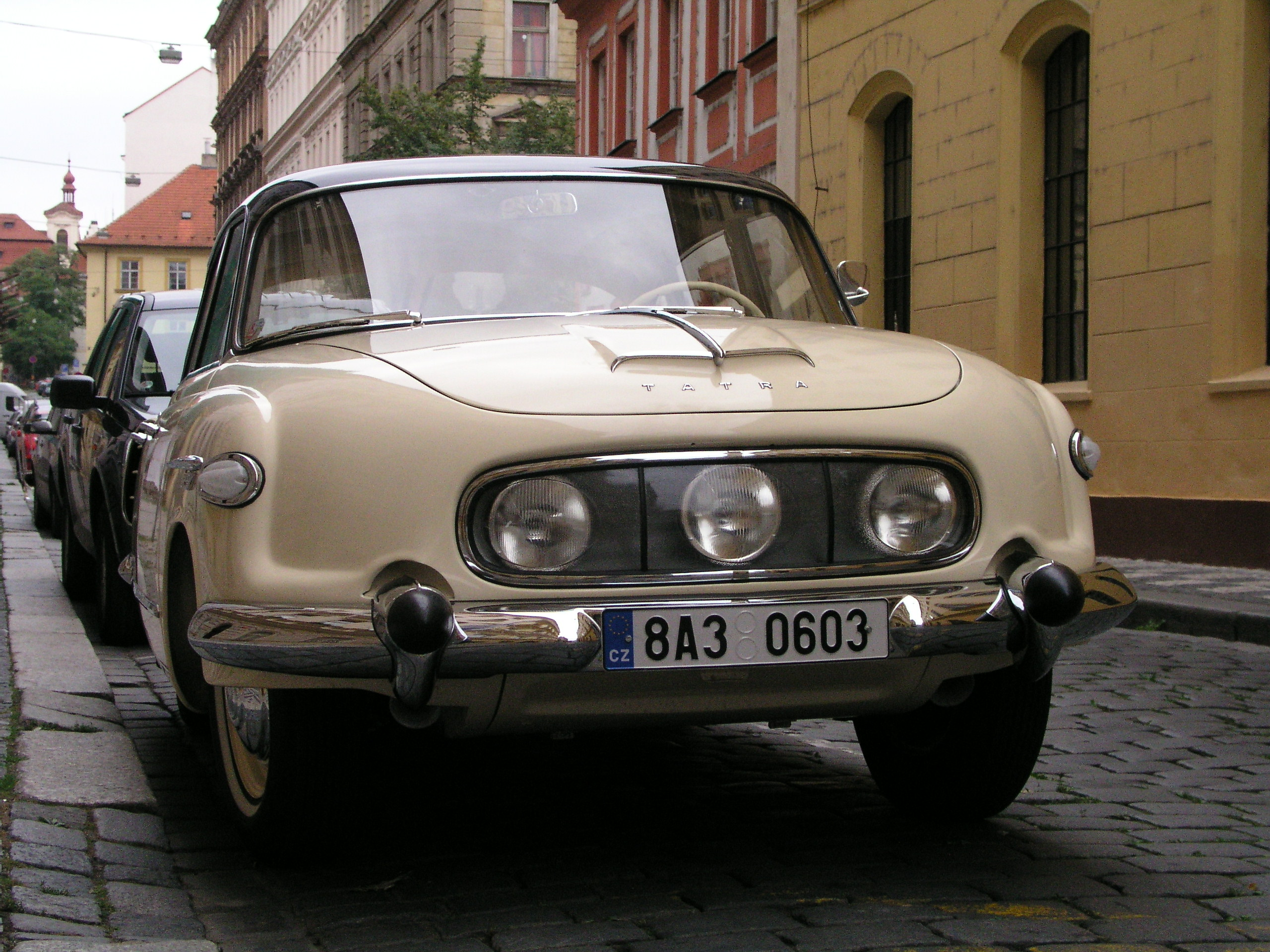 Tatra 603, Czech made, from the 1950's